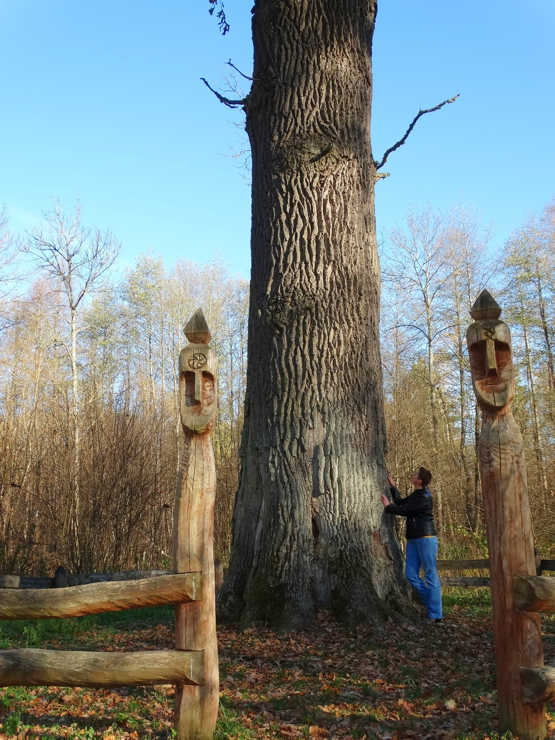 Oak in Gojus Forest, Prienai district, Lithuania